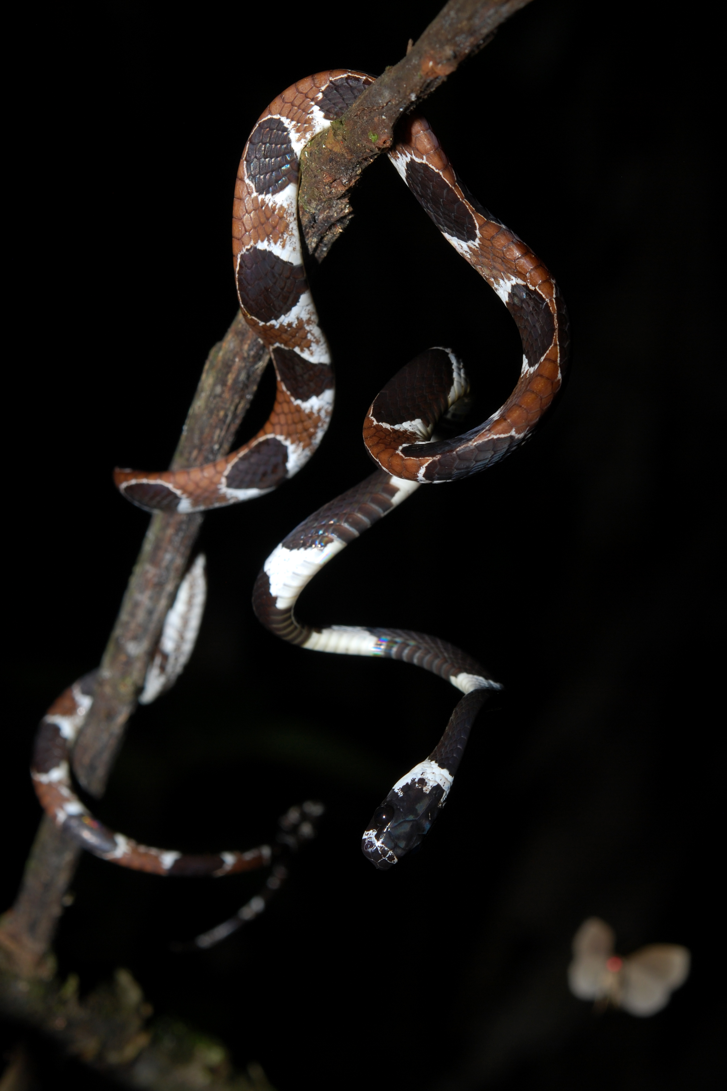 Ornate snail-eating snake (Dipsas catesbyi) in Yasuni National Park, Ecuador.